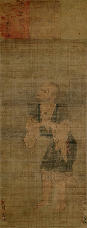 Ikkō Shōnin, Shōjōkōji, Fujisawa, Kanagawa, Japan